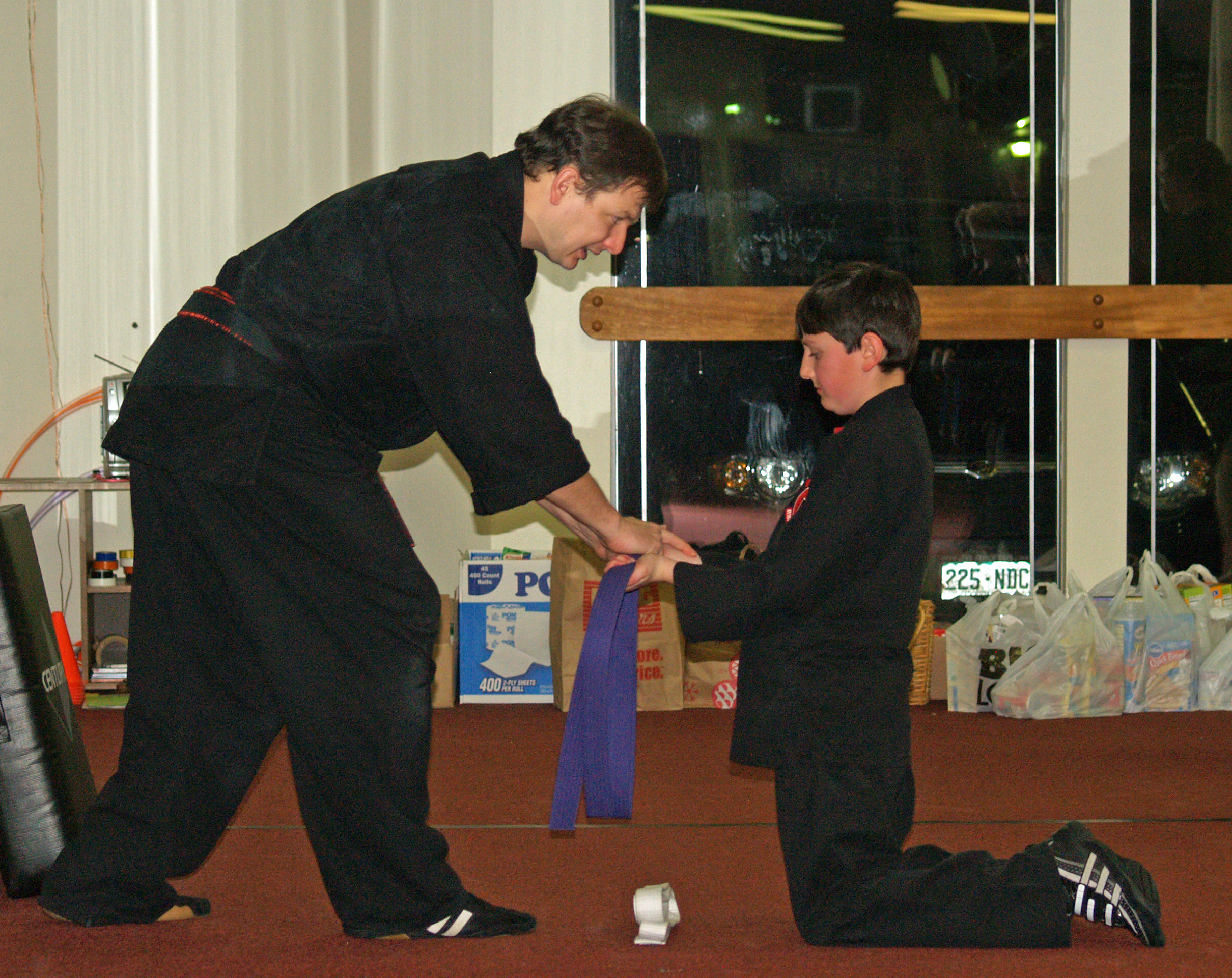 A novice belt is placed on the floor as the new color is handed over in front of the dojo.